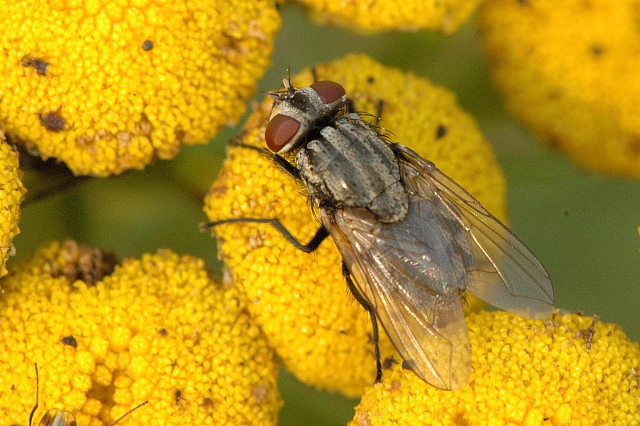 Picture taken in Commanster, Belgian High Ardennes . Species: female Musca autumnalis